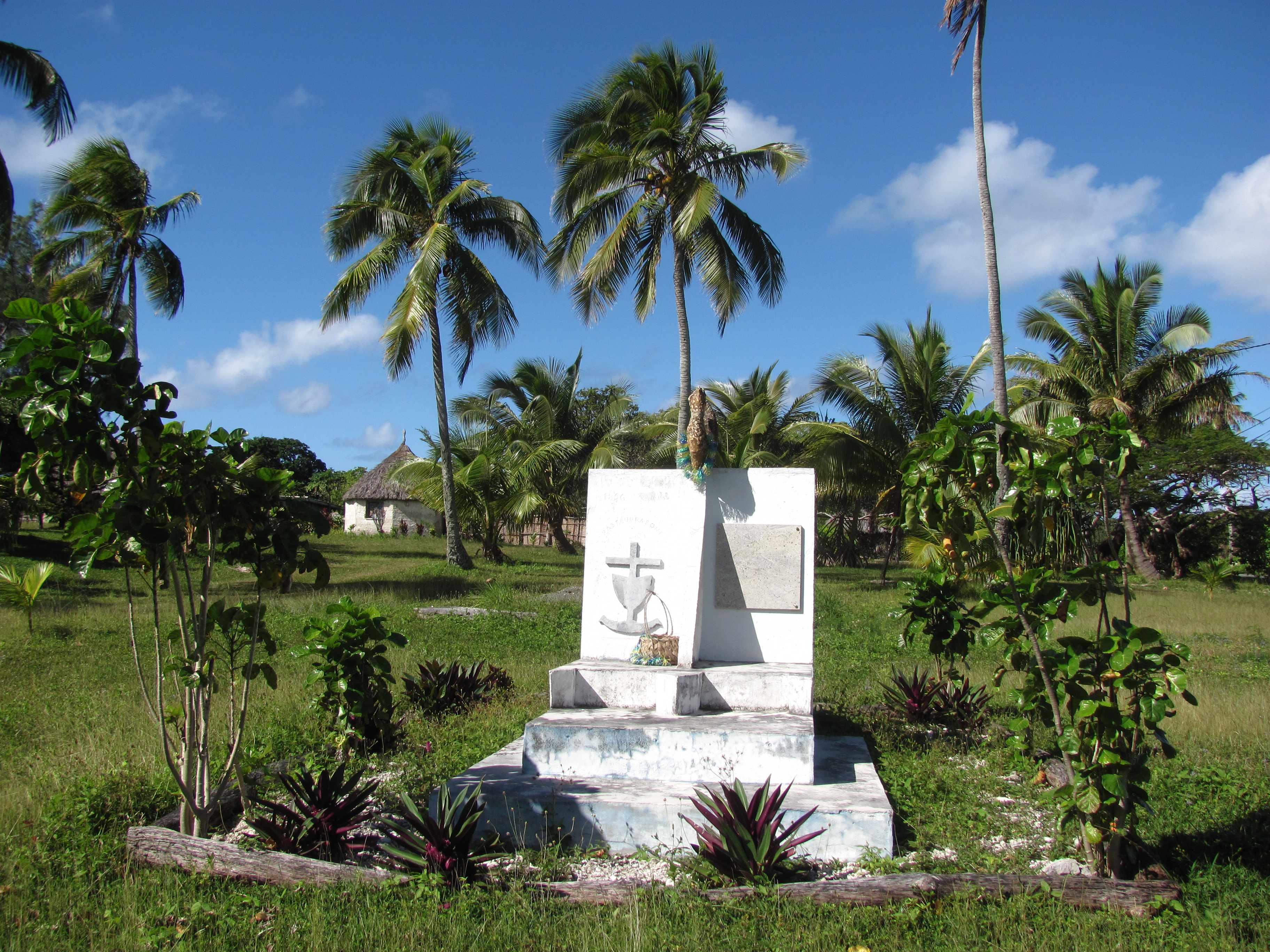 Monument on front of the Protestant Church of Wadrilla, Ouvéa, New Caledonia